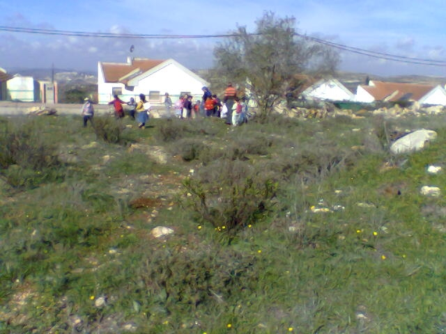 A photograph we shot while staying in Tapuah.